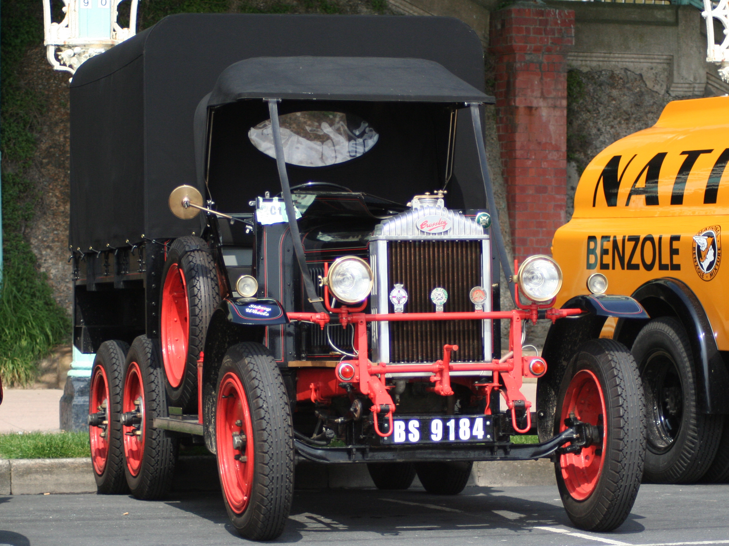 Crosslye BGV, 1927